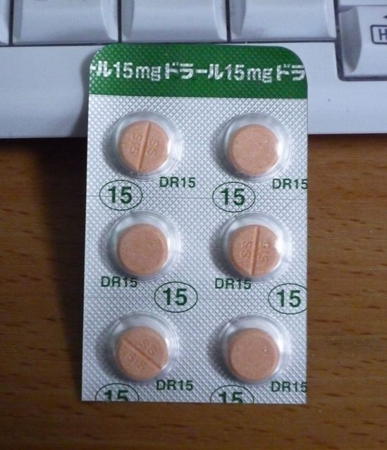 Doral(Quazepam)15mg tablets sold by Mitsubishi Tanabe Pharma Corporation in Japan.